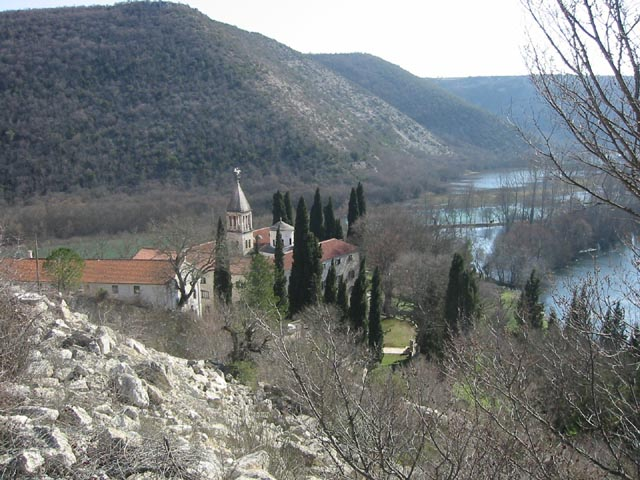 Serbian Orthodox monastery Krka